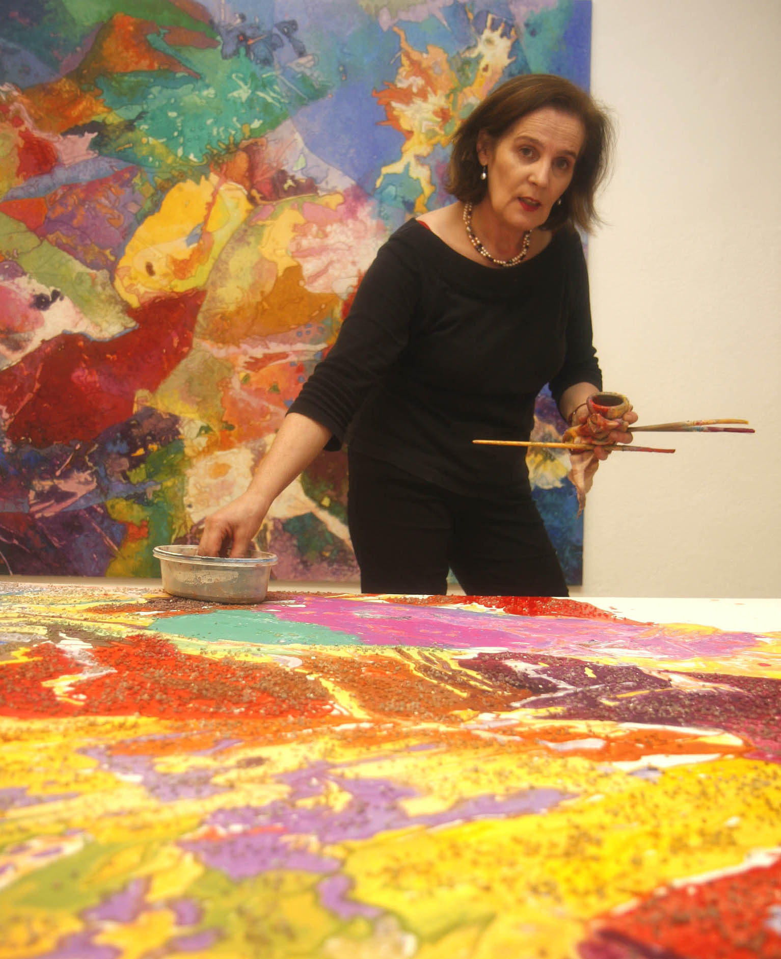 Erika Seywald, Austrian Painter